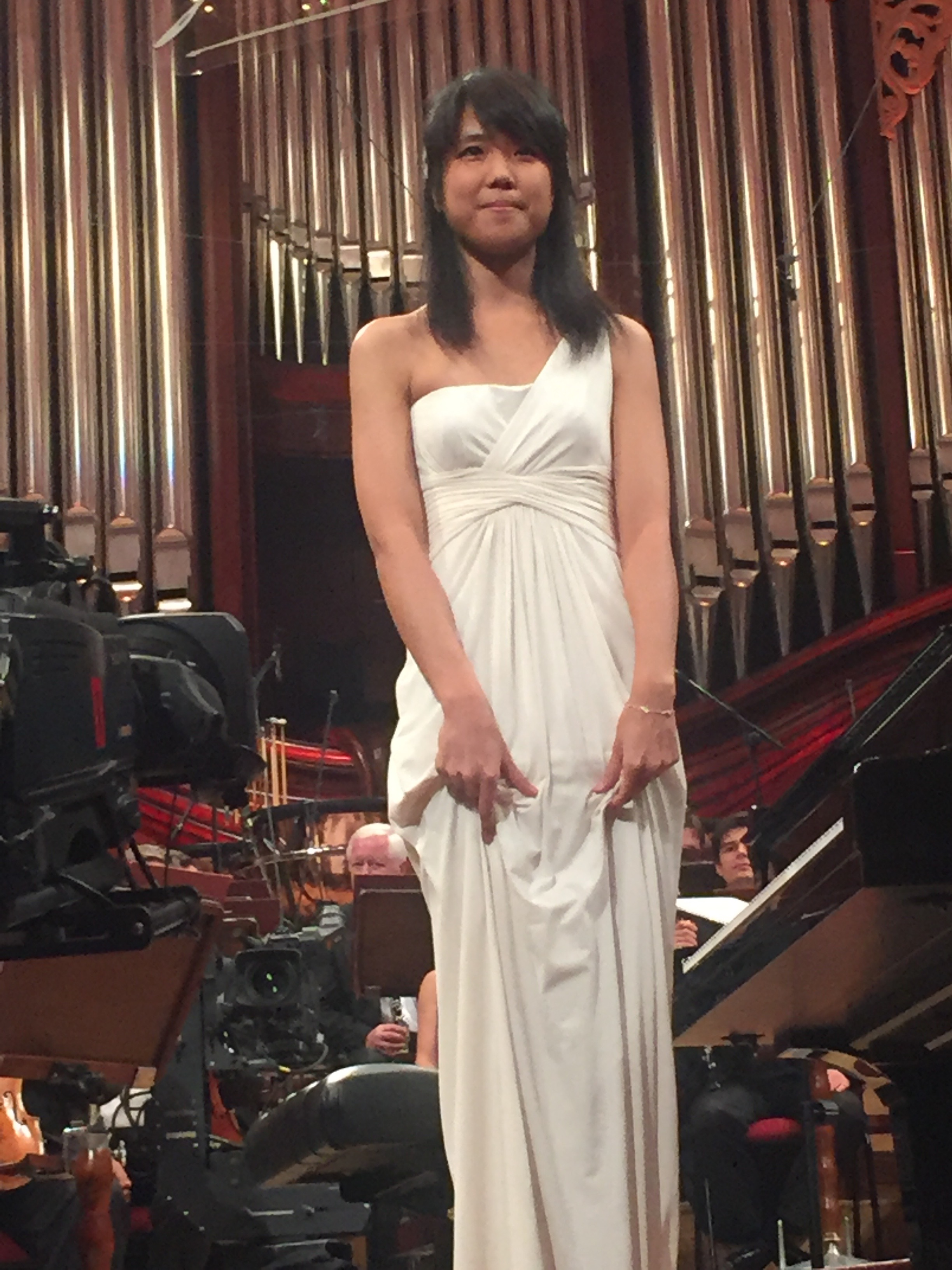 Kate Liu at the International Chopin Piano Competition 2015, Finals